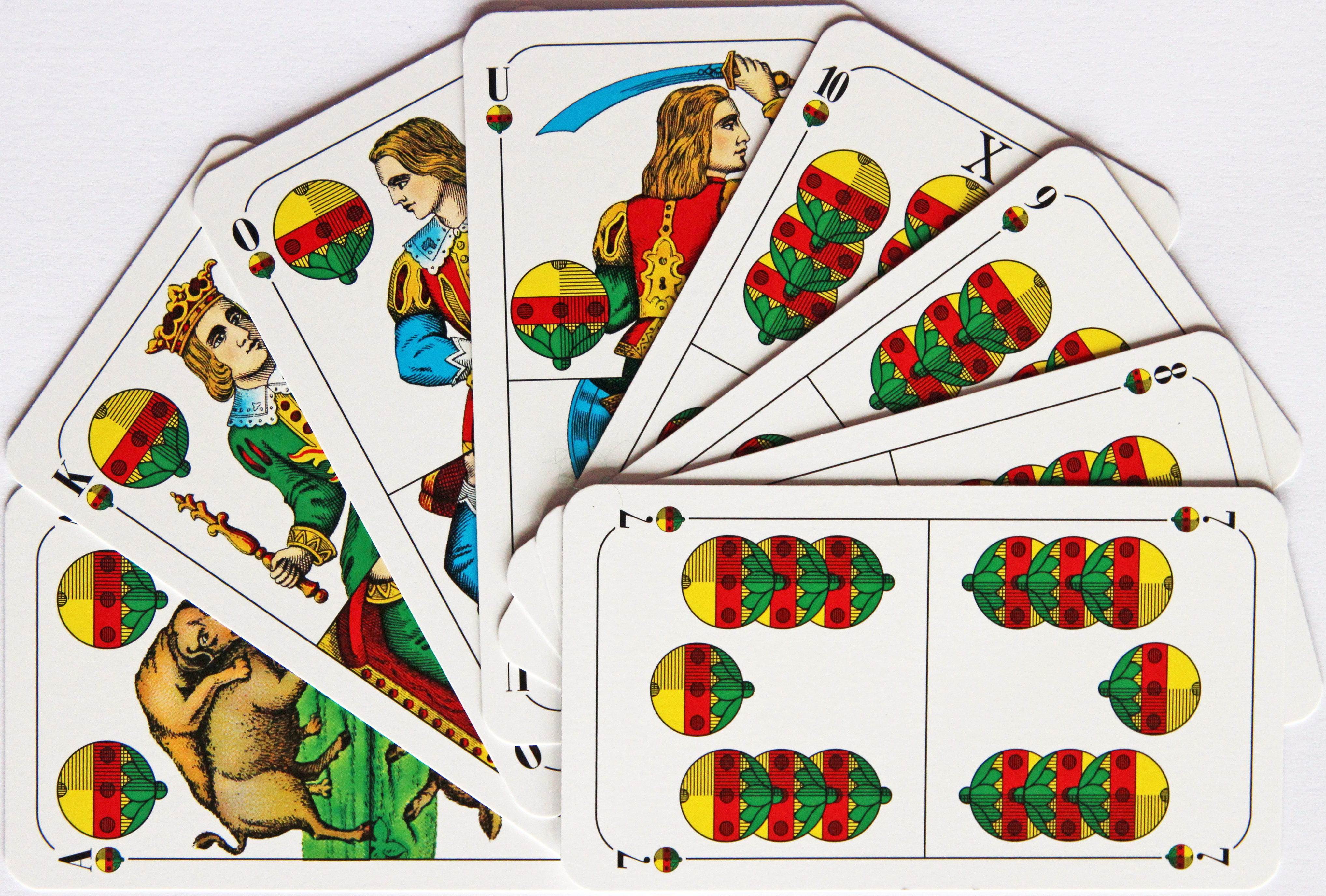 The suit of Bells from a Bavarian pattern, German-suited pack